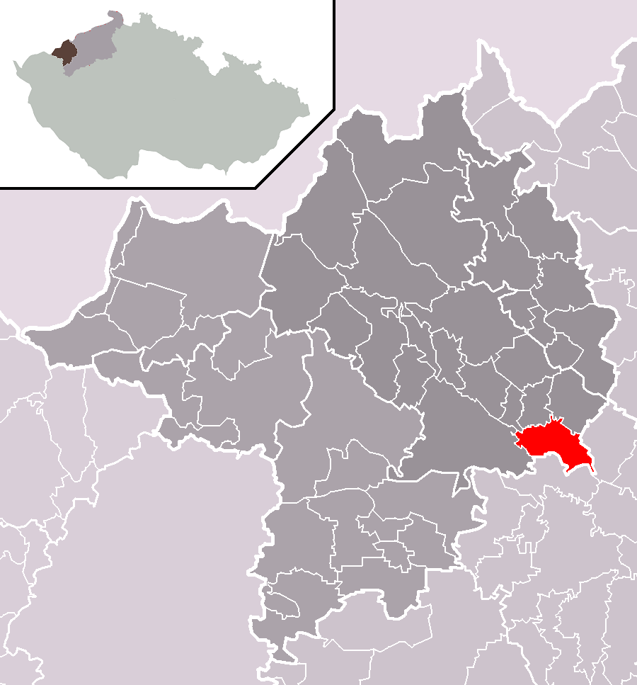 Location of Hrušovany municipality within Chomutov District and administrative area of Chomutov as a Municipality with Extended Competence.